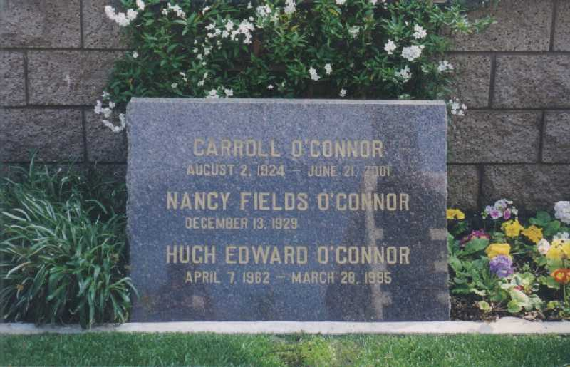 Gravestone of actor Carroll O'Connor.